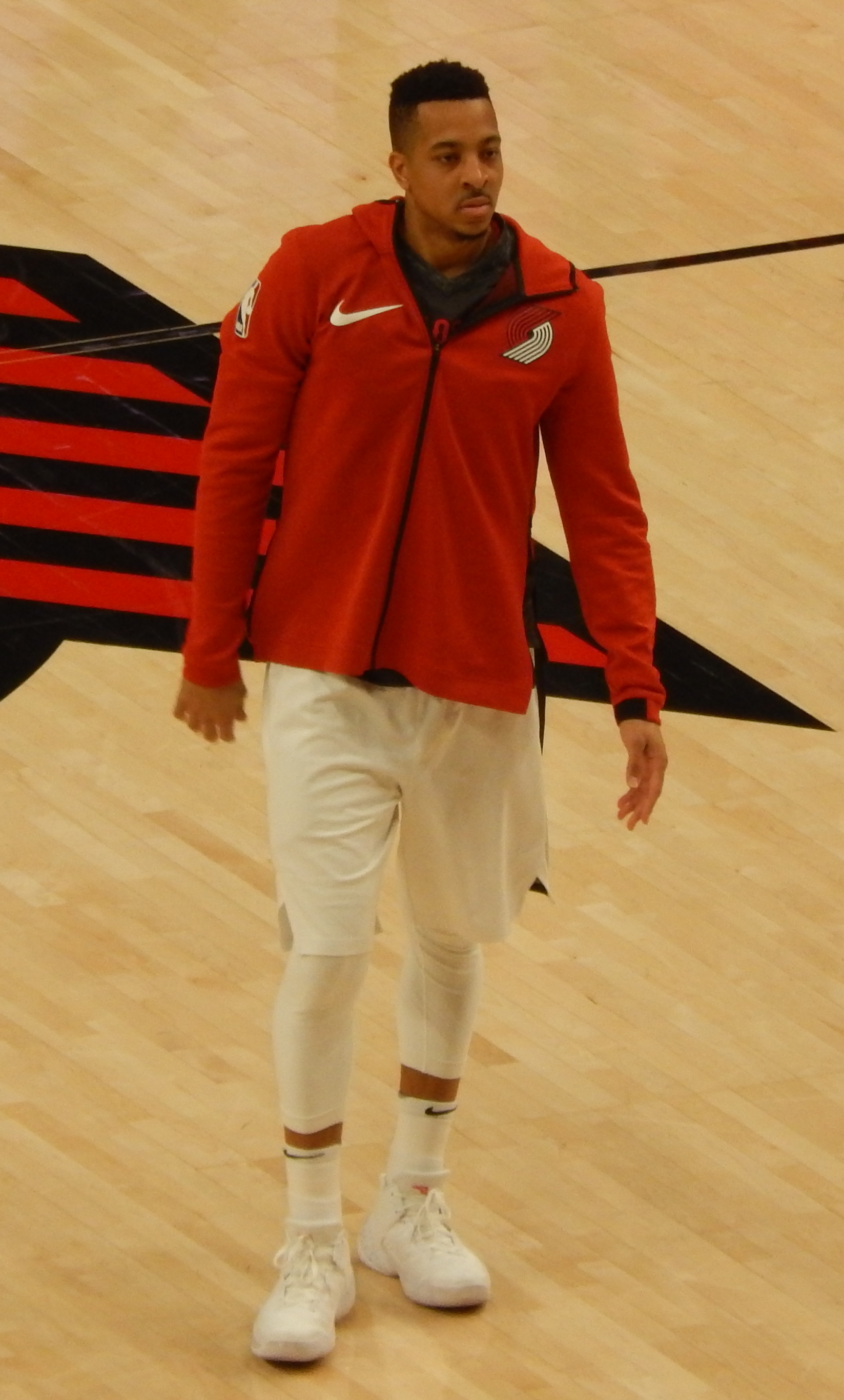 C. J. McCollum #3 of the Portland Trail Blazers against the New York Knicks on March 6, 2018 at Moda Center in Portland, Oregon.